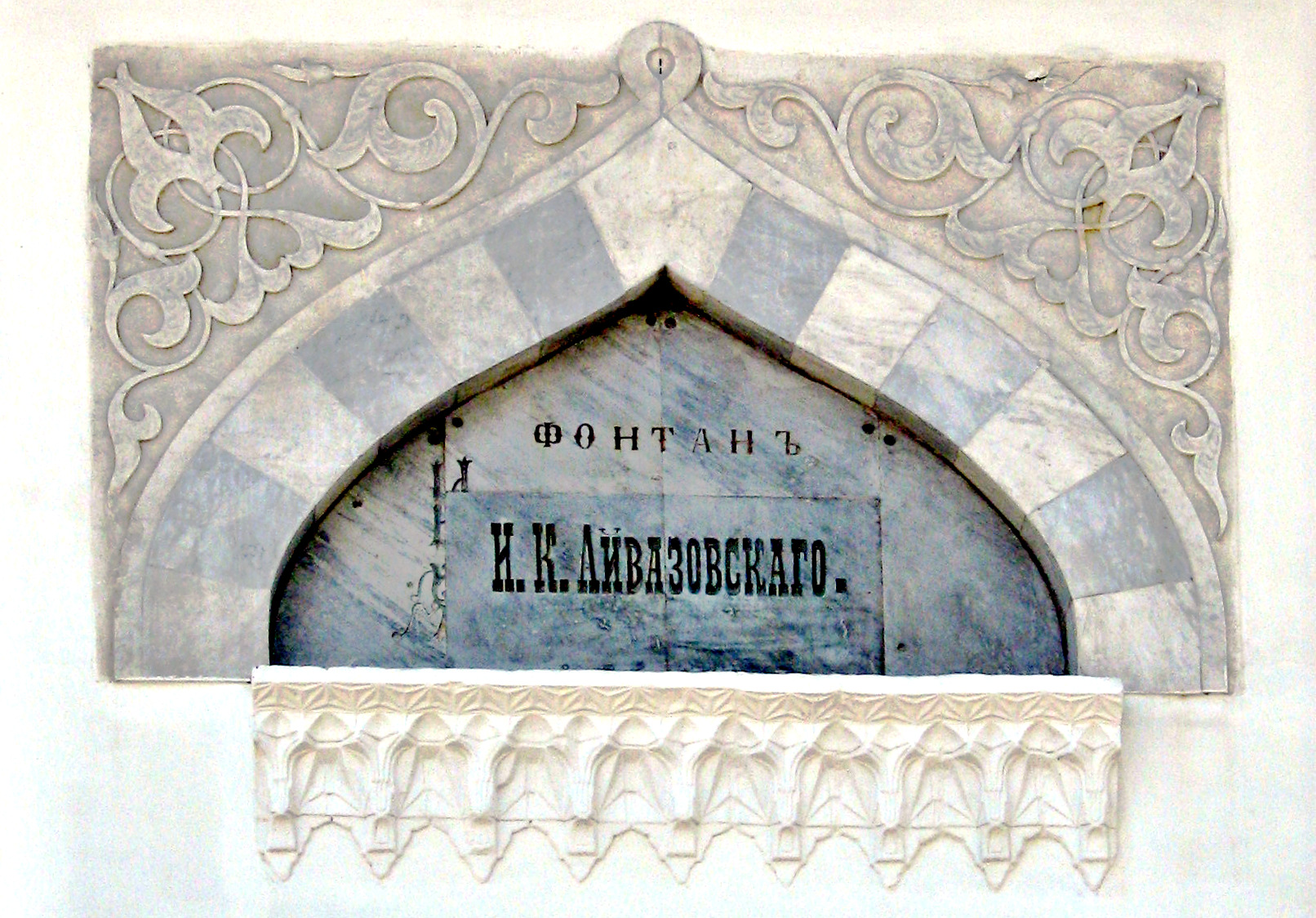 Ivan Aivazovsky fountain. Rename. Theodosia. Crimea. Ukraine. 1988 year.